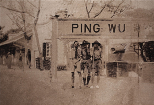 The Ping Wu (now Pinghu) Railway Station of the Chinese Section of the Canton-Kowloon Railway.